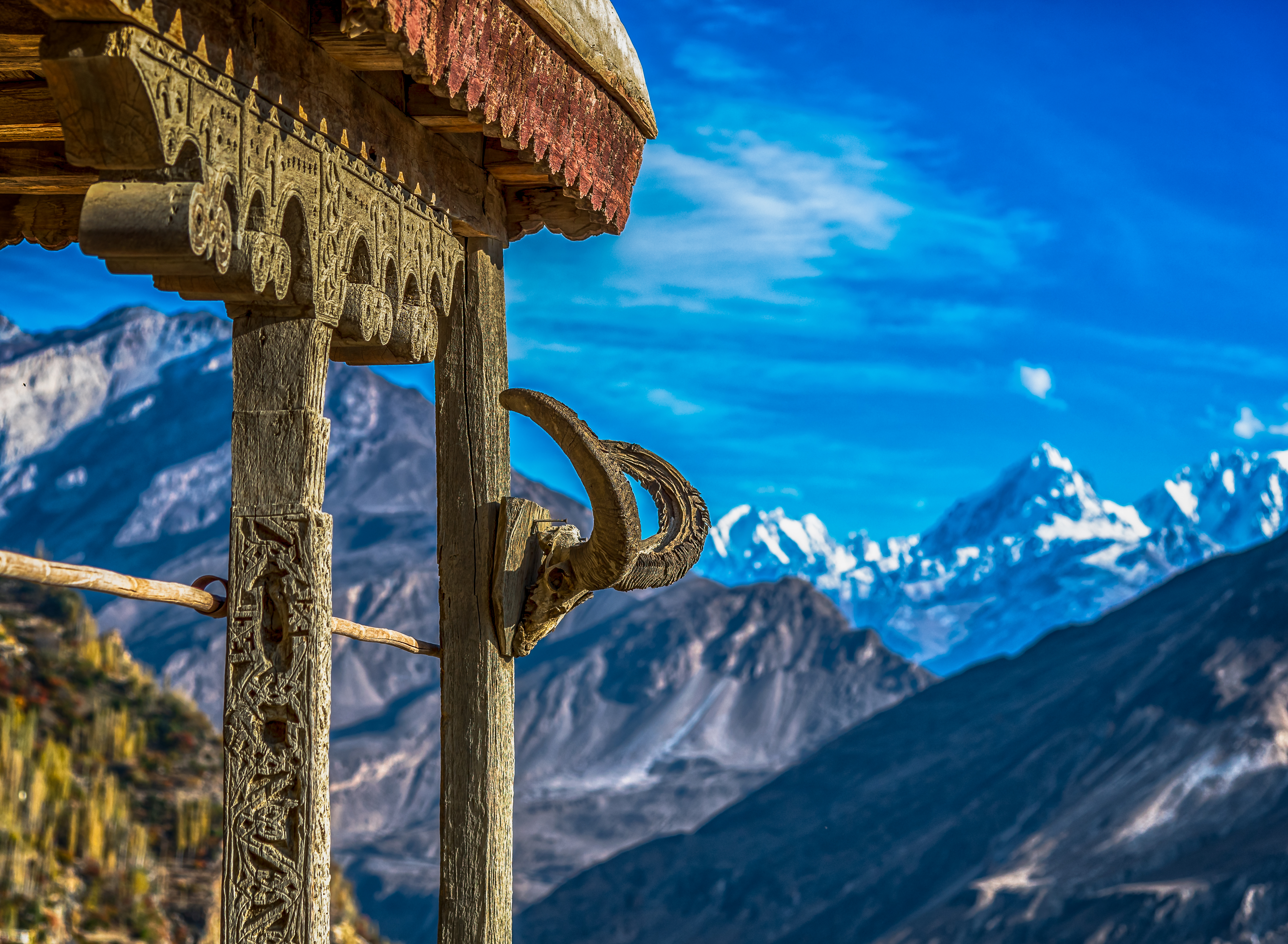 The terraces of the Baltit Fort. This 700yrs old fort is on the tentative UNESCO World Heritage list, a never to be missed place while visiting the Hunza region. The wonderful view of the valley is best witnessed at sunrise and sunset time. Autumn and spring are the best seasons to visit offering the wonderful colors of golden autumn and the blossoms.